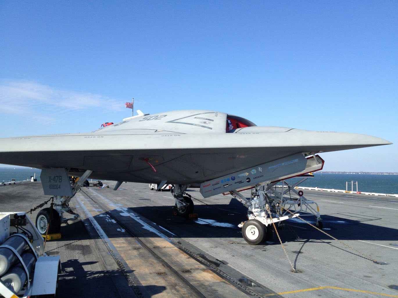 The X-47B concluded its flight deck taxi tests, deck operator hand-off tests, and flight deck capability tests Dec. 15, prior to Truman’s return to Norfolk. AV-2 will return to Patuxent River, Md. to continue land-based testing.